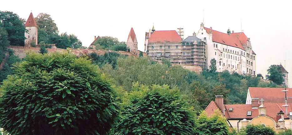 Castle Trausnitz in Landshut, Germany, Photo: Władysław Łoś, 2004